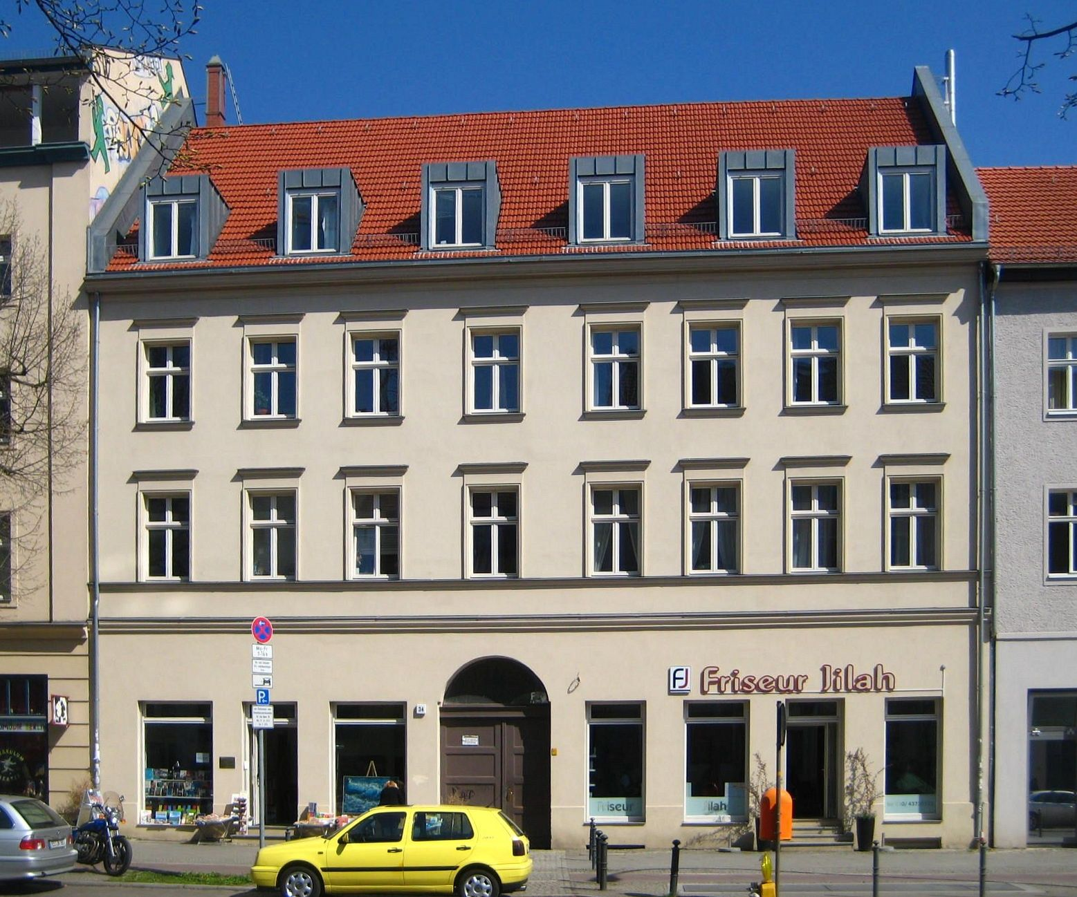 Residential building at Brunnenstraße No. 34 in Berlin-Mitte. The house was built in 1854. It has been dedicated as a historic landmark.